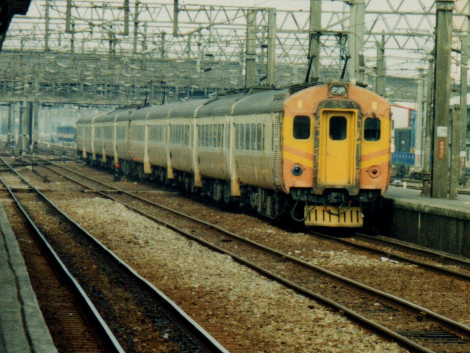 GEC's original EMU100, delivered in 1978 for Taiwan's original West Coast Mainline Electrification Programme.